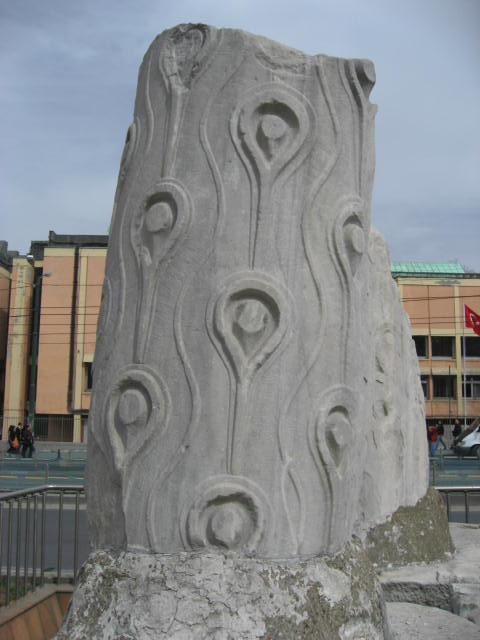 The ruins of the Triumphal Arch of Theodosius. The marble pieces that are located here belong to the Triumphal Arch and the forum built by and named after Emperor Theodosius the Great (4th century CE). The Triumphal Arch was situated on the southwest corner of the Theodosius Forum (today Beyazit Square). This area used to be called "Forum Tauri" (The Bull Square) but in the 4th century CE the name was changed into the "Forum of Theodosius". During this period, the forum was surrounded by marble public and civil buildings decorated with porticoes. The marble archeological pieces that can be seen today were found between the years 1948 and 1961 during the rearrangements of Beyazit Square and Ordu street. After the discovery of these pieces, an experimental reconstruction was made in spite of the absence of some pieces and finally the probably form of the monument was established. According to this reconstruction, the triumphal arch had a vaulted roof with three passageways. The central one was higher and the ones on either sides lower. It was conceived to be similar to the ones in Rome. In the middle was the statue of Theodosius, while on both sides statues of his sons were put up, Arcadius and Honorarius. Today the main street that starts from the Hagia Sophia Square is basically in the same direction to the west with the ancient Mese road, which formed the main artery of the old city. The Mese, passing through the Theodosius triumphal arch continued on to Thrace and reached out the Balkan peninsula. The triumphal arch and the surrounding ancient buildings to which some ruins possibly belong were destoryed as a result of invasions and natural disasters like earthquakes from the 5th century on. Thus their destruction was completed long before the conquest of Constantinople by the Ottoman Turks.